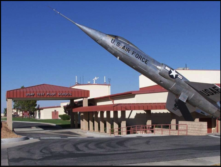 Main building of the USAF Test Pilot School at Edwards, AFB, California.